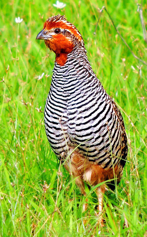 Jungle Bush Quail Perdicula asiatica